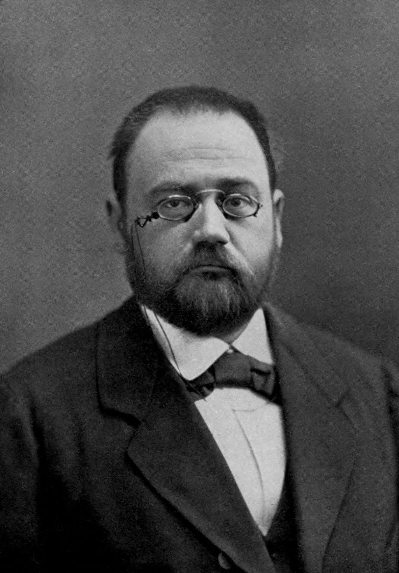 Emile Zola c1875